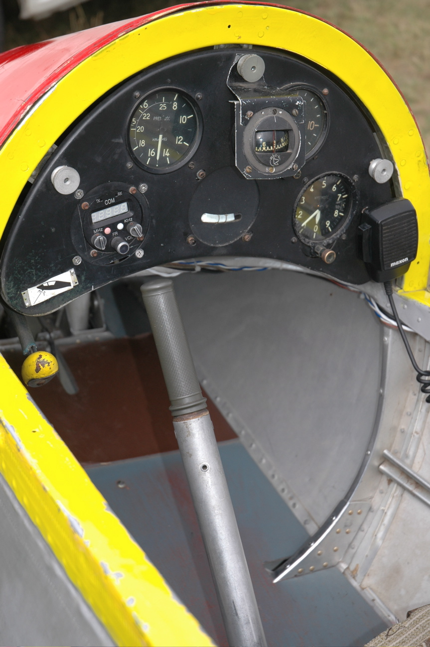 Cockpit of R-26SU Góbé'82 trainer glider (reg. HA-5506, Dunakeszi, Hungary)